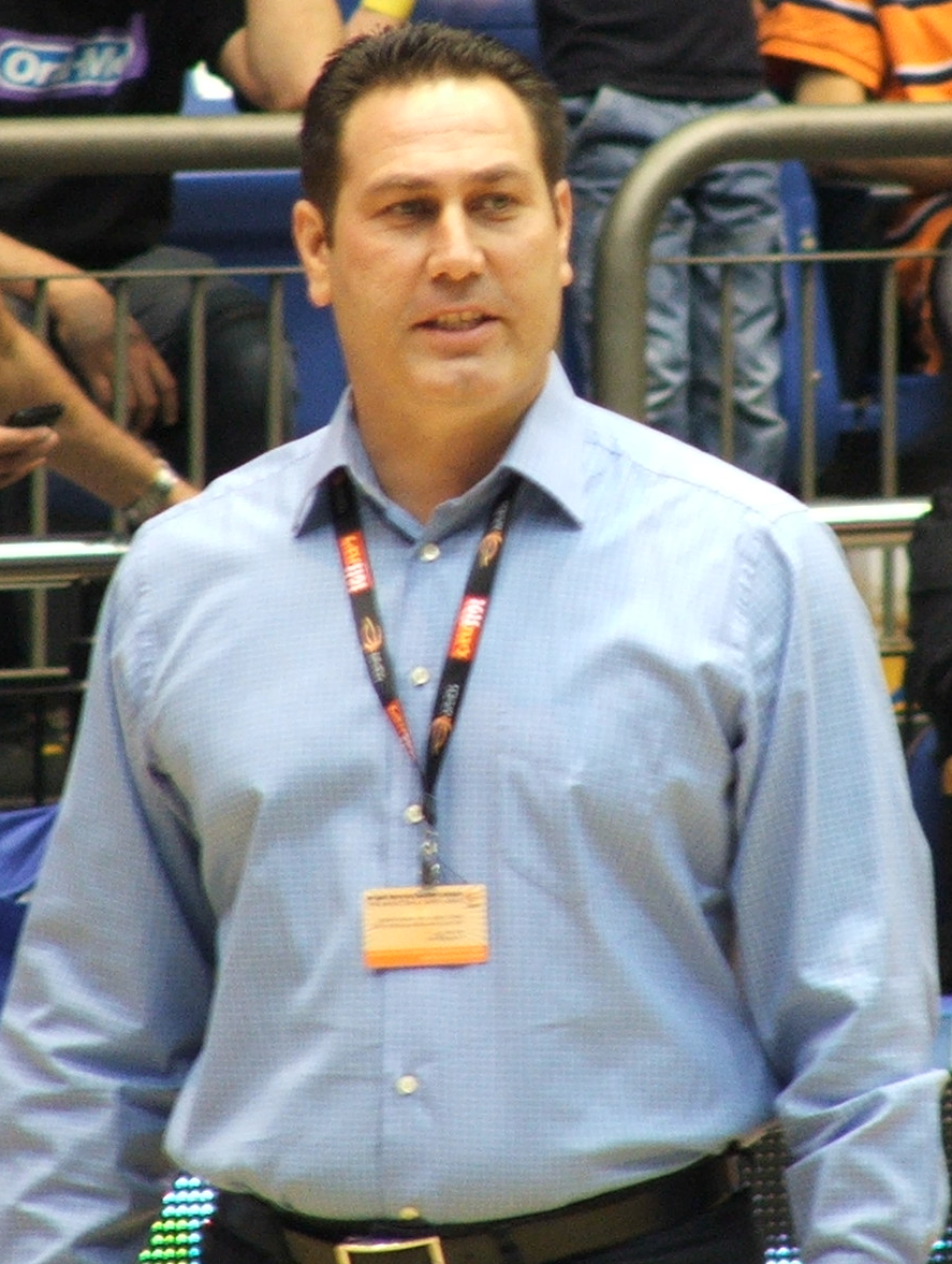 Maccabi Tel Aviv VS. Barak Netanya 31/10/11